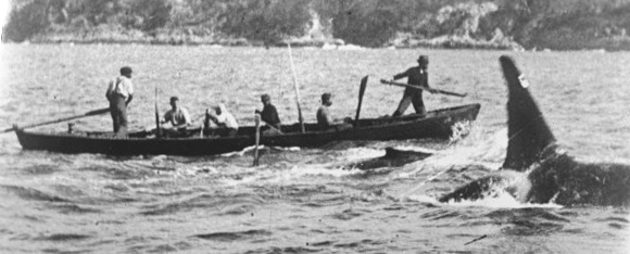 Detail of still from early documentary film, first shown publicly in 1912. In the foreground is a killer whale (Orcinus orca) named Old Tom, swimming alongside a whaling boat that is being towed by a harpooned whale (out of frame to the right). A whale calf can be seen between Old Tom and the boat. The whalers were based in Eden, New South Wales, Australia. Sources for description: [1], [2]